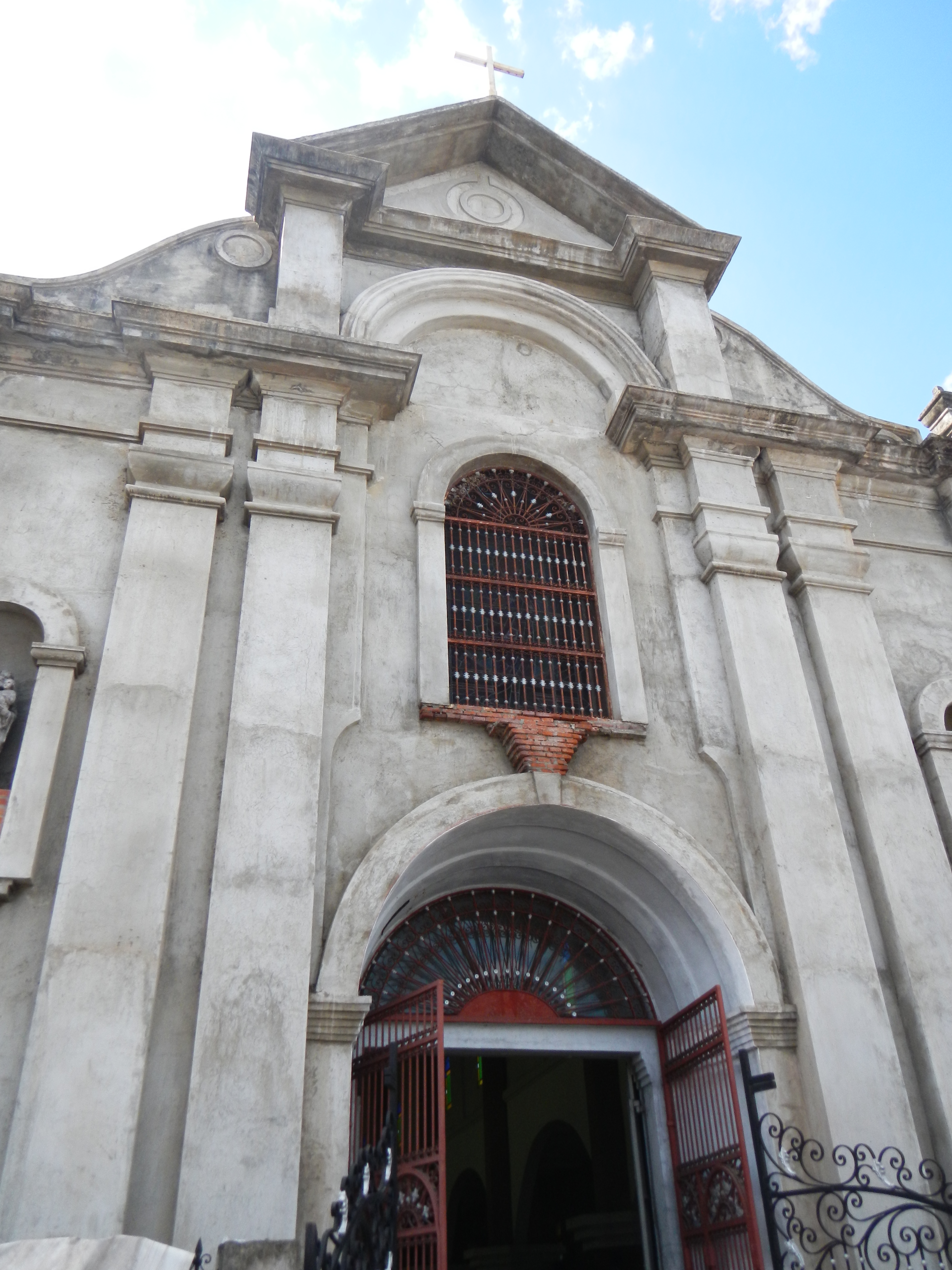 The Sanctuario De San Juan Evangelista (Jovellanos St., Dagupan)[1] is part of the Roman Catholic Archdiocese of Lingayen-Dagupan, Vicariate I:Queen of the Apostles; Msgr. Renato P. Mayugba, DD, the Auxiliary of Lingayen-Dagupan, is the Rector of the Sanctuario de San Juan Evangelista.[2][3]